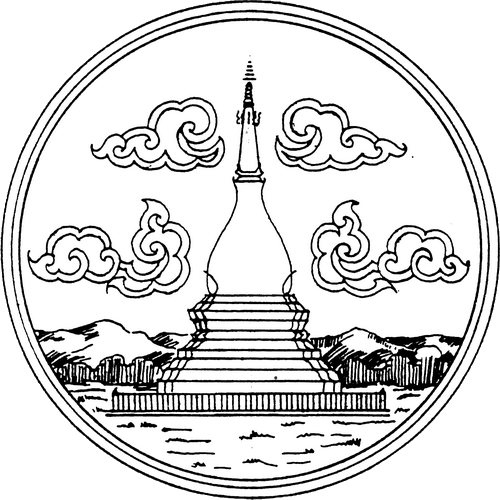 Provincial seal of Loei province.